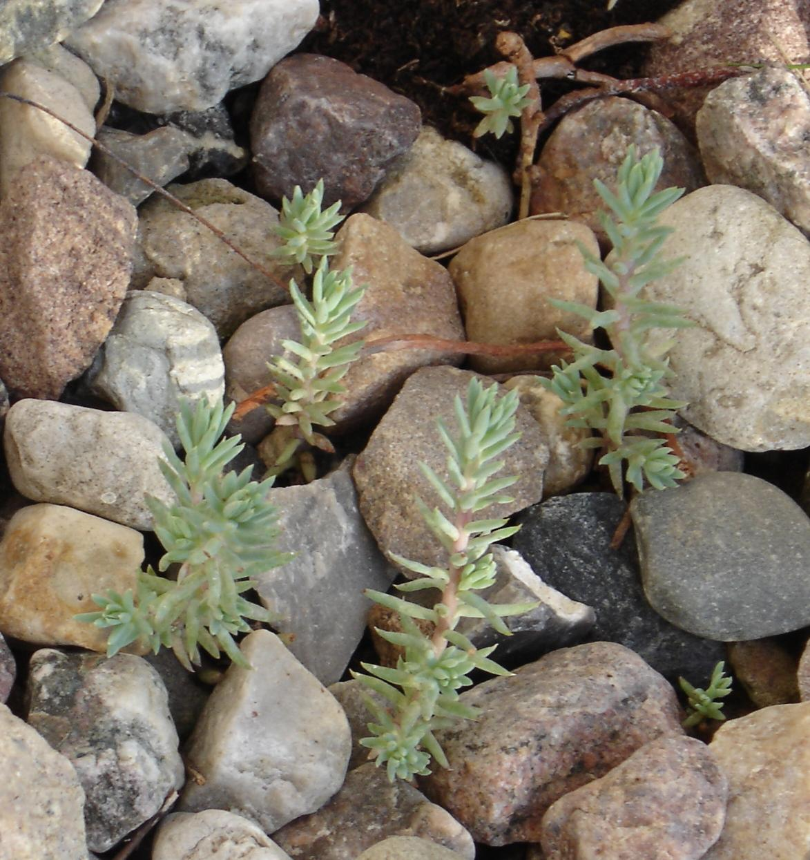 sedum reflexum (picture taken by Michael Burschik in his garden in Berlin)